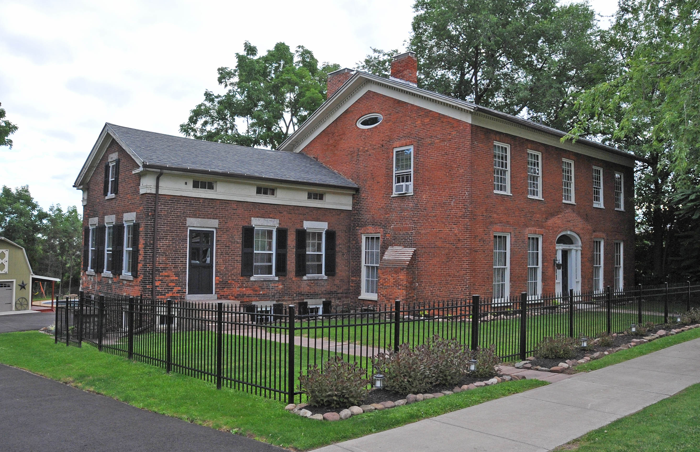 HENRY R. SELDEN HOUSE IN THE CLARKSON CORNER H.D. THIS HOUSE WAS BUILT BY ABEL BALDWIN AROUND 1820. HIS DAUGHTER LAURA AND SON-IN-LAW HENRY SELDEN, A DISTINGUISHED CITIZEN AND LAWYER WHO WOULD BECOME LIEUTENANT GOVERNOR OF NEW YORK AND JUDGE IN THE STATE COURT OF APPEALS, LIVED IN THE HOUSE. IT WAS SAID THAT SELDEN EVEN RAN A SMALL LAW SCHOOL ON THE PREMISES. HIS SON, GEORGE BALDWIN SELDEN IS GIVEN THE CREDIT FOR INVENTING AND PATENTING THE SIX-CYLINDER GASOLINE ENGINE.